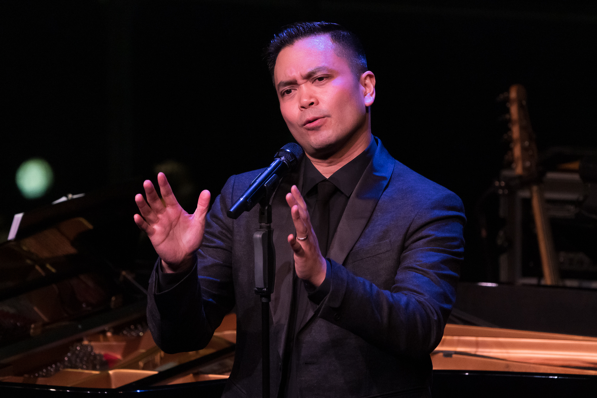 February 1, 2019 The Appel Room Time Warner Building New York, NY Photo by Steven Pisano